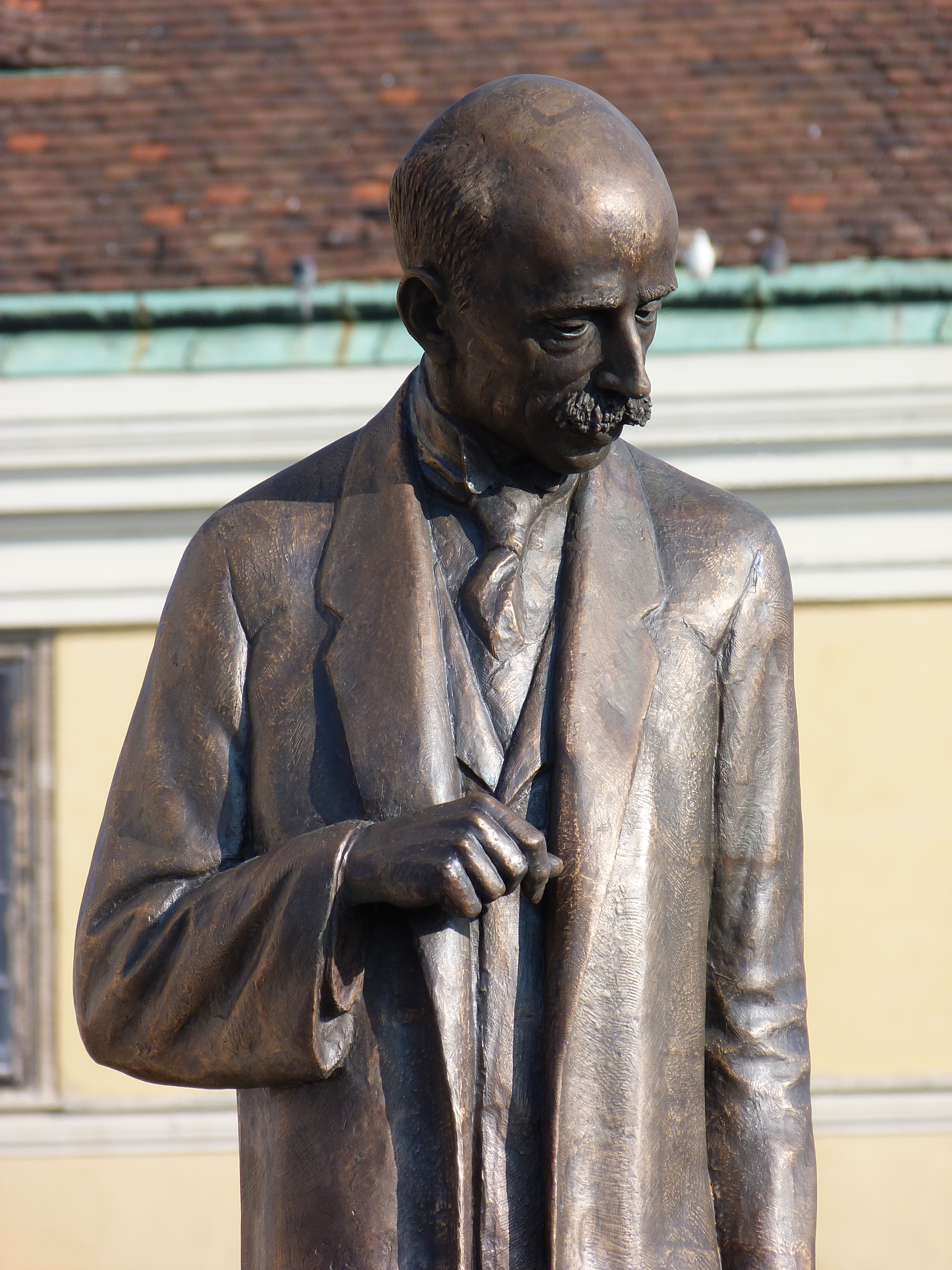 Statue of István Bethlen by Géza Stremeny, and Gergely Kápolnás (architect) in 2013. Modern. Bronze statue on Limestone base related to an historic event.